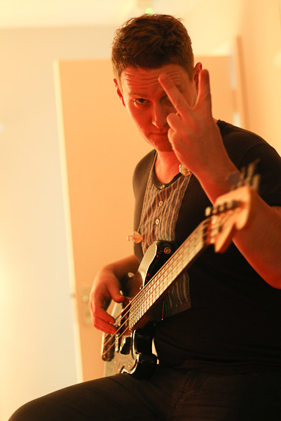 Russell Leetch Bass Guitarist from UK band, Editors